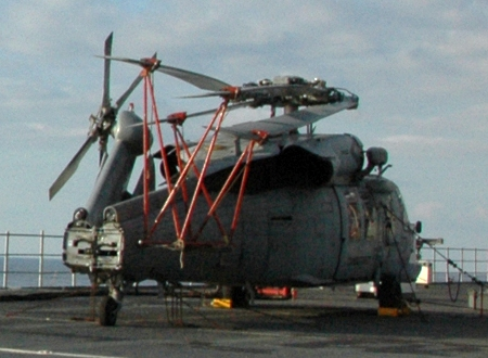 SH-60 Seahawk with tail and rotors folded on the USS Mount Whitney, cropped from U.S. Navy Electrician's Mate 3rd Class Joseph Roverano teaches Personnel Specialist 1st Class Carlene Mart proper gun control during live-fire, small-arms qualifications aboard amphibious command ship USS Mount Whitney (LCC/JCC 20), under way in the Mediterranean Sea, Jan. 31, 2009. The ship is supporting Austere Challenge 2009, a United States Army Europe and Seventh Army warfighters' command and control exercise.